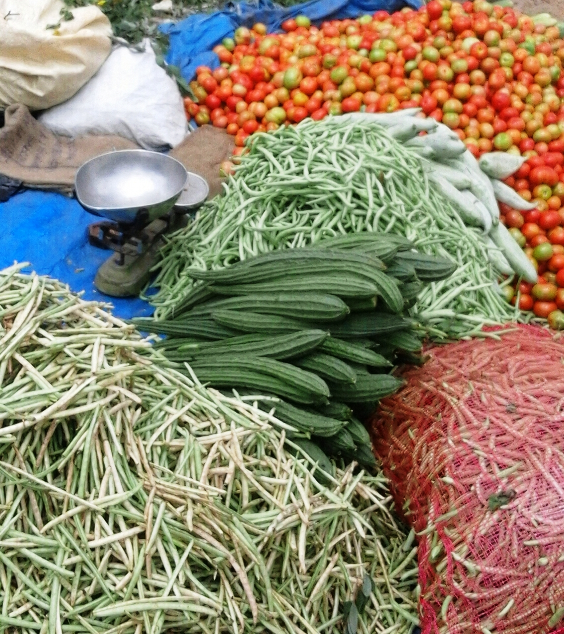 Malavalli town, Mandya district, Karnataka state, India.